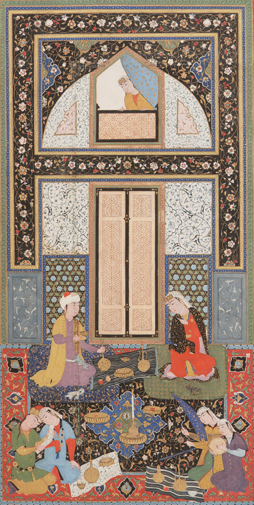 Double-page painting in a copy of the Haft Manzar (Seven visages). Signed by Shaykhzada, Shaybanid dynasty, Manuscript; opaque watercolor, ink, and gold on paper, H: 26.2 W: 16.8 D: 2.6 cm, Bukhara, Uzbekistan Purchase, F1956.14